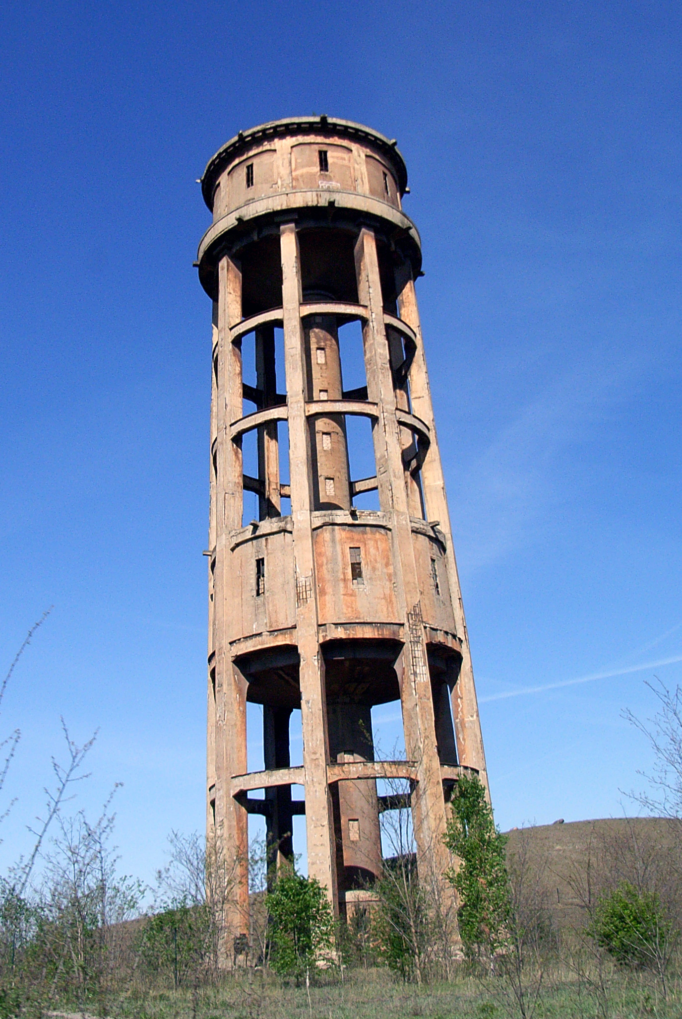 This image shows an Water tower build under the architecture siyle of the GDR in Niederlausitz.